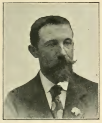 Maurice Eliot, photographic portrait published in Jean Martin (1897), Nos Peintres & Sculpteurs, Paris: Flammarion, page 155.